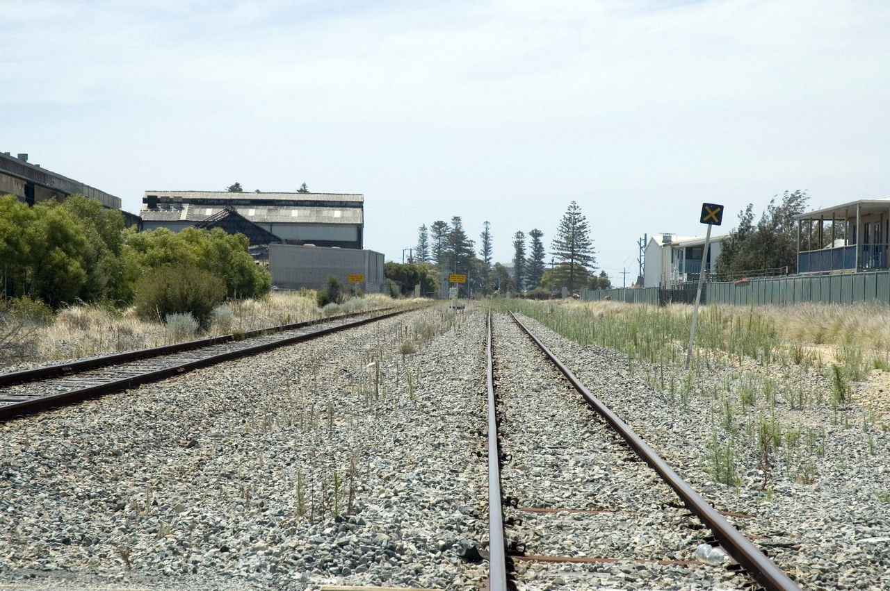 Old Robb Jetty Marshalling Yards area - South Fremantle, Western Australia.